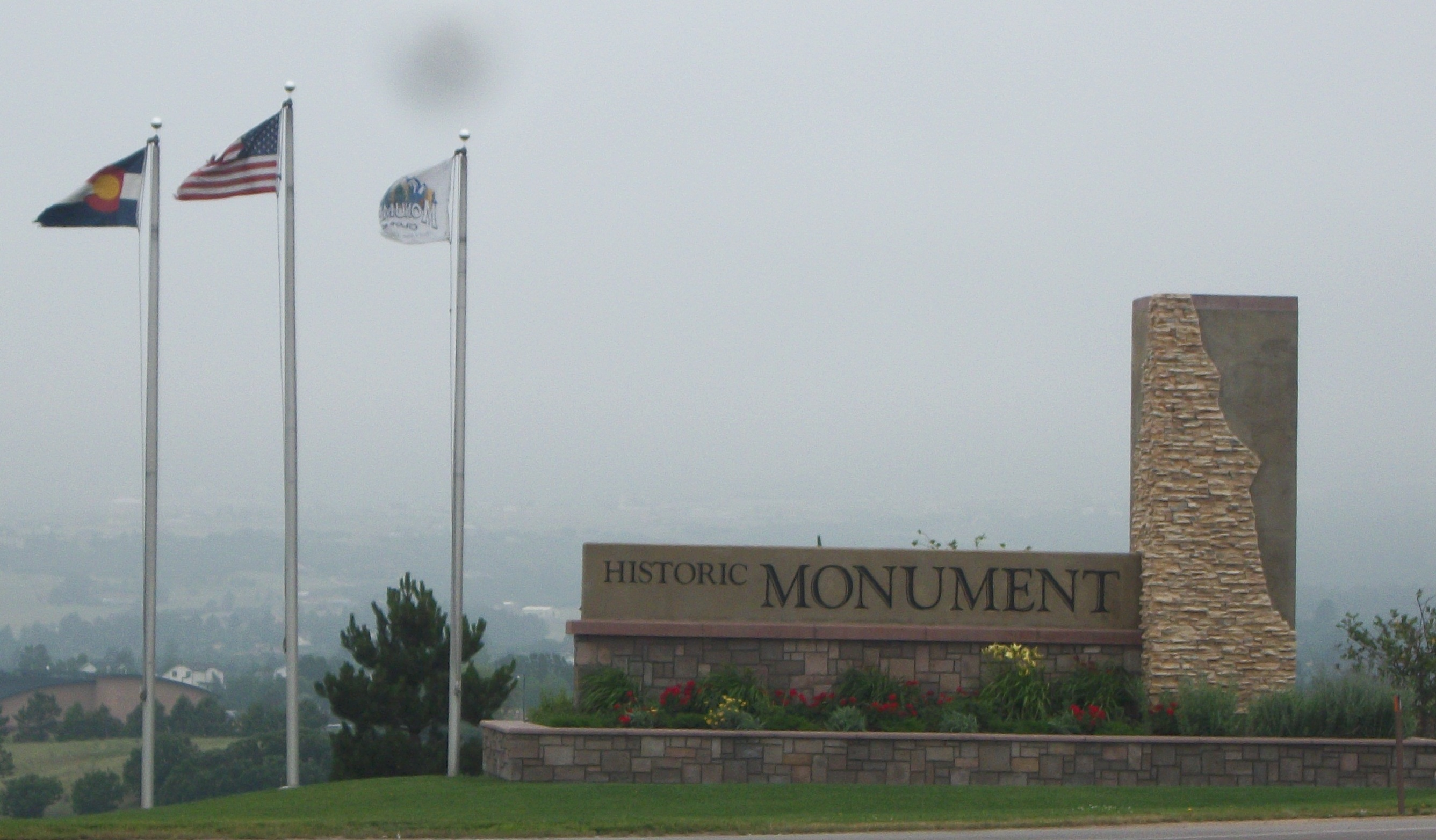 Welcome sign to monument, COlorado.